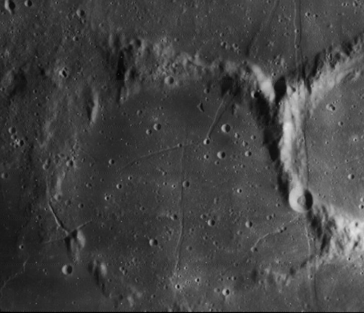 Bonpland, on the moon.